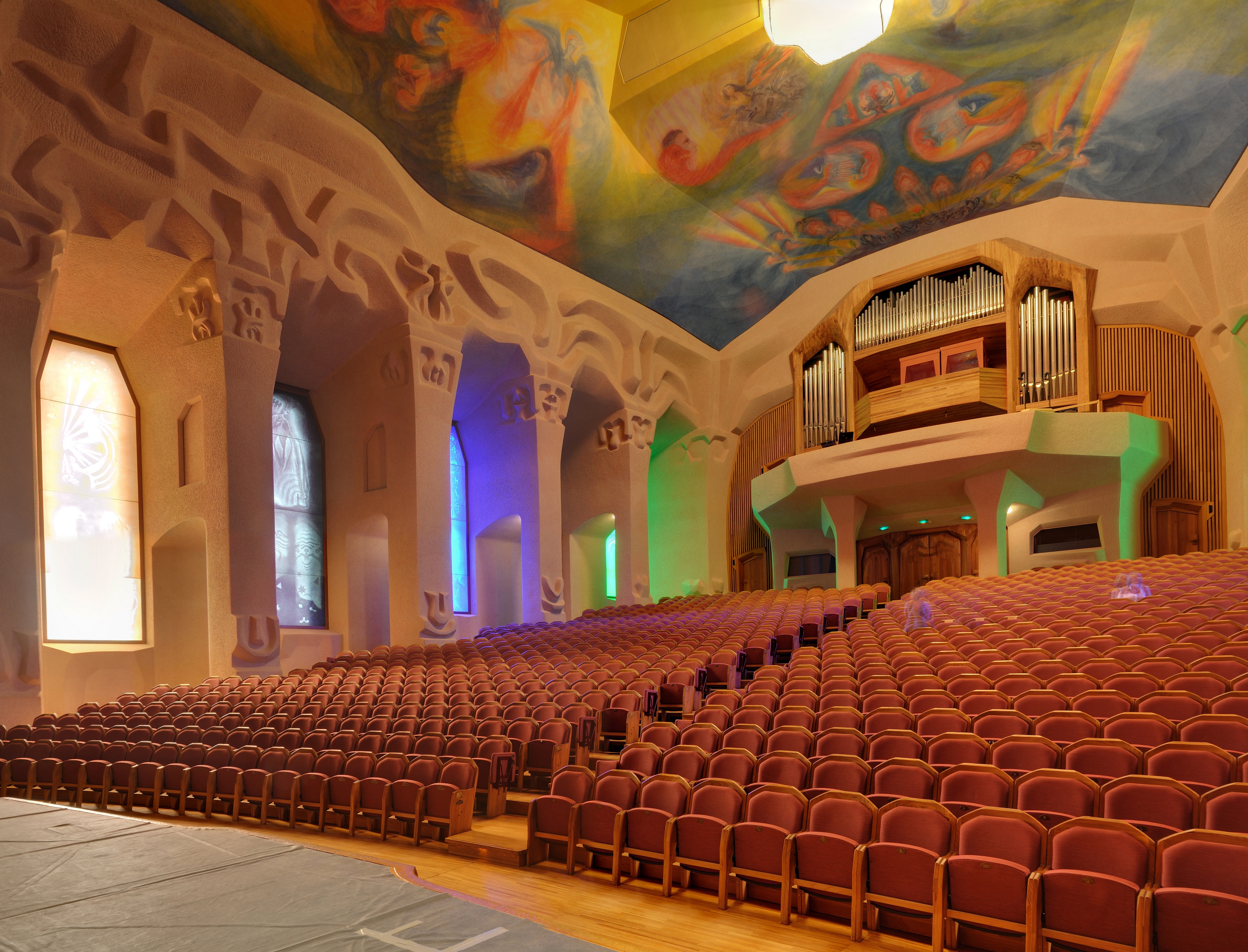 Goetheanum: Great hall